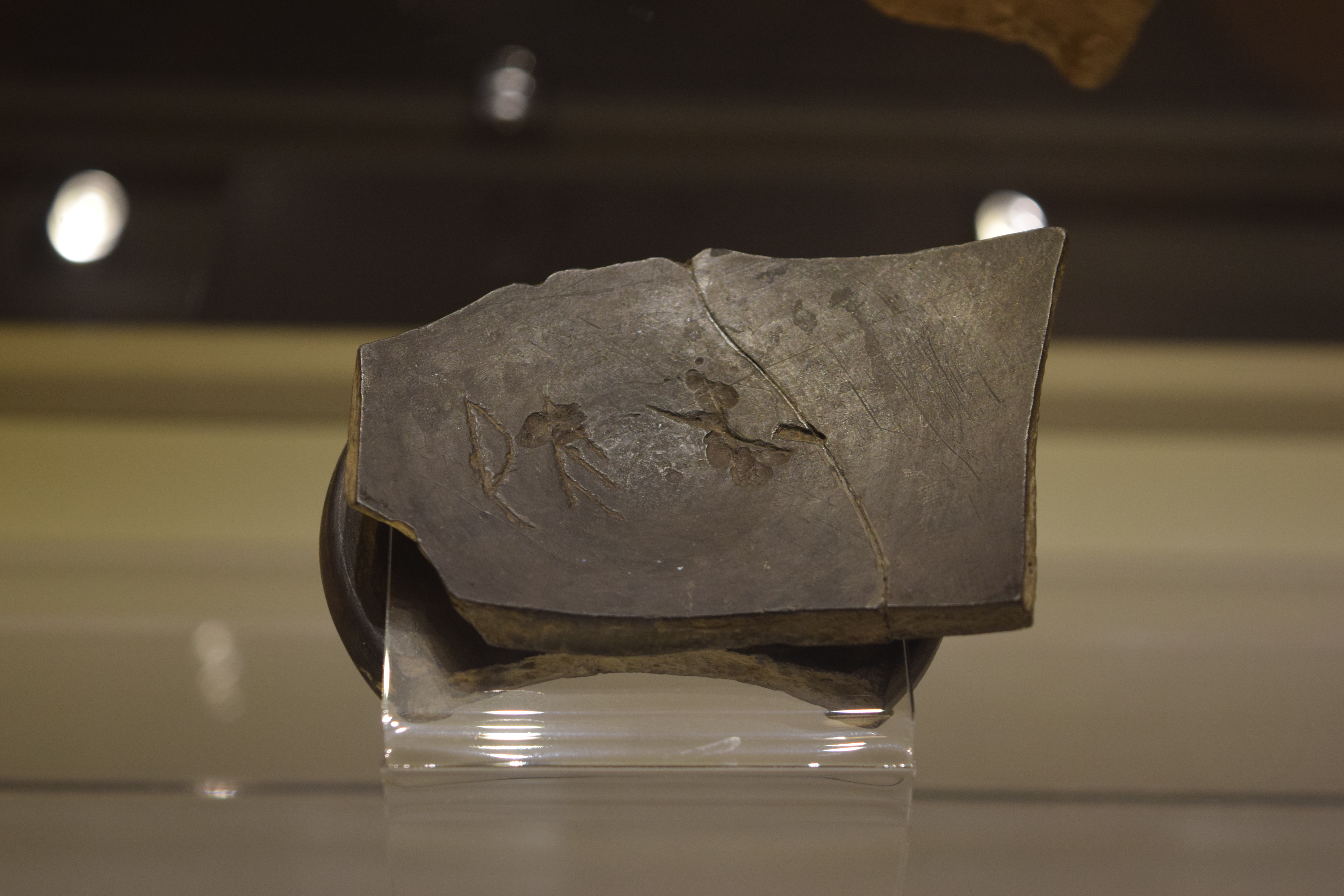 Bucchero (etruscan vase) fragment with "rex" inscription, found near the Regia in the Roman Forum. Museo delle Terme di Diocleziano, Rome.